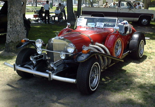 Excalibur Series II at a Studebaker show in Anaheim, California Capture date: May 30, 2004 Location: Anaheim, California